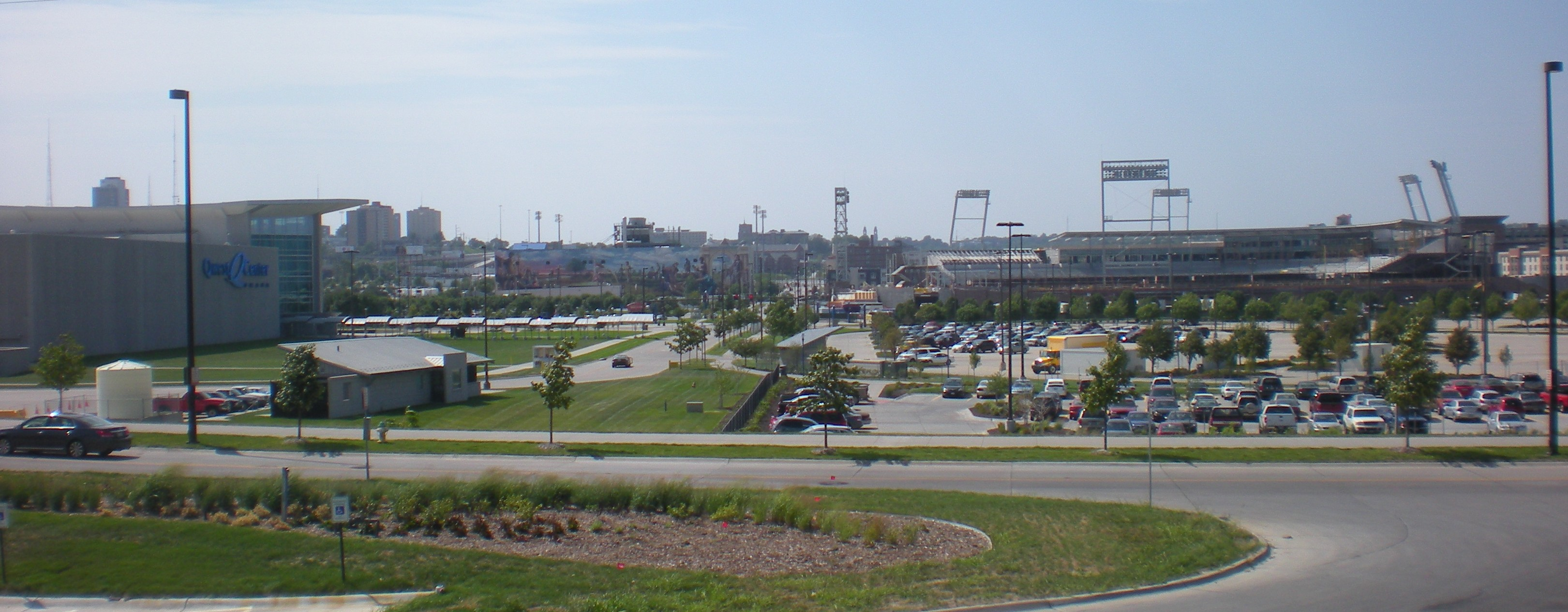 TD Ameritrade Park Omaha under construction next to Qwest Center Omaha.